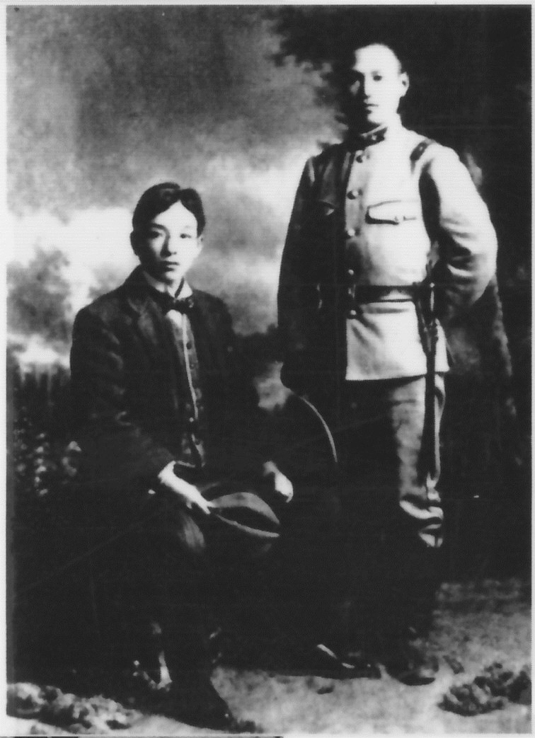 Huang Fu (Left) and Chiang Kai-shek (In Japan)